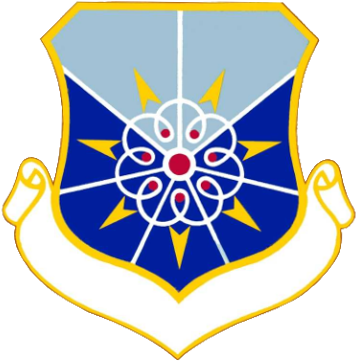 Emblem of the 73d Space Group, an inactive wing of the United States Air Force